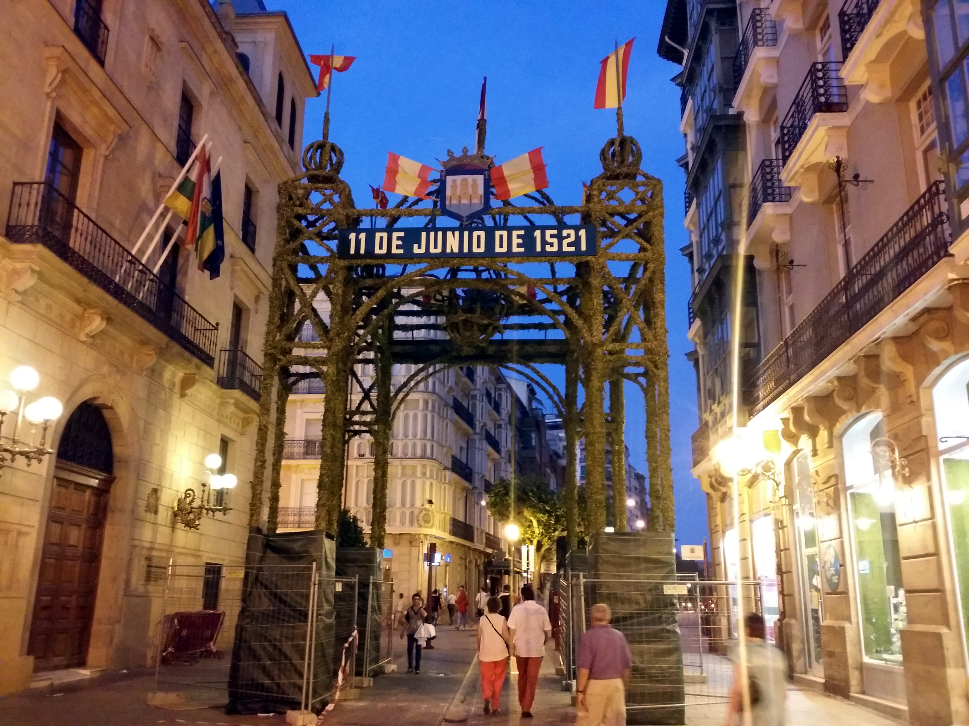 Archway for the San Bernabé Festival in Logroño, Spain in 2015. This is a photography of a Folklore festival in Spain (Wikidata id Q5660198).